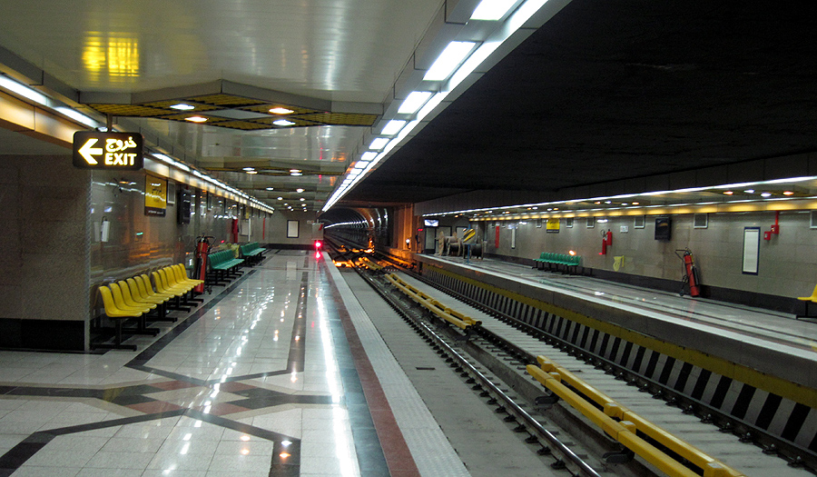 Tehran, Subway station